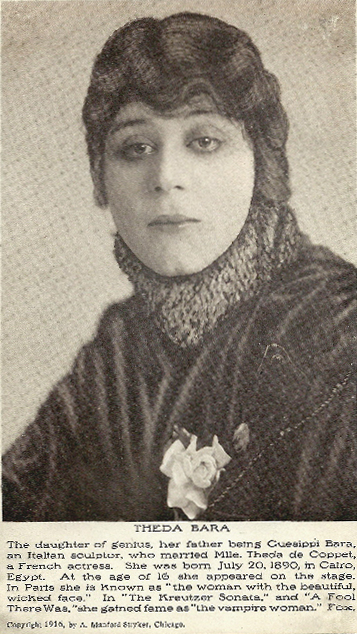 Publicity card. The caption says: "The daughter of genius, her father being Guesippi Bara, an Italian sculptor, who married Mlle. Theda de Coppet, a French actress. She was born July 20, 1890, in Cairo, Egypt. At the age of 16 she appeared on the stage. In Paris she is known as "the woman with the beautiful, wicked face." In "The Kreutzer Sonata," and "A Fool There Was," she gained fame as "the vampire woman." Fox. Copyright 1916, by A. Manford Stryker, Chicago"